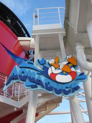 Entrance to the AquaDuck, in this case the Disney Dream's version.